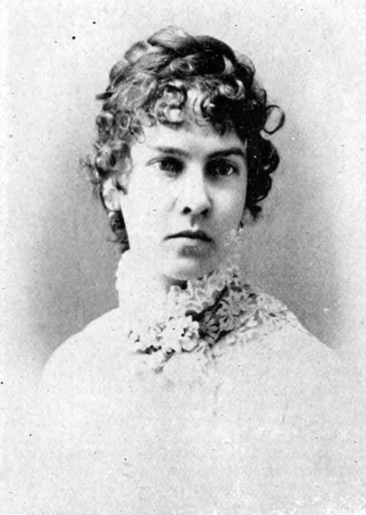 Miss Mary Canfield Ballard as depicted in A Woman of the Century, 1893.